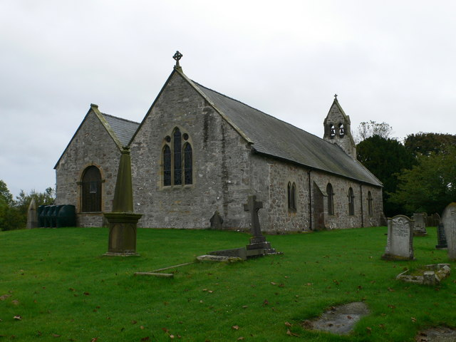 Photograph of the church from the east